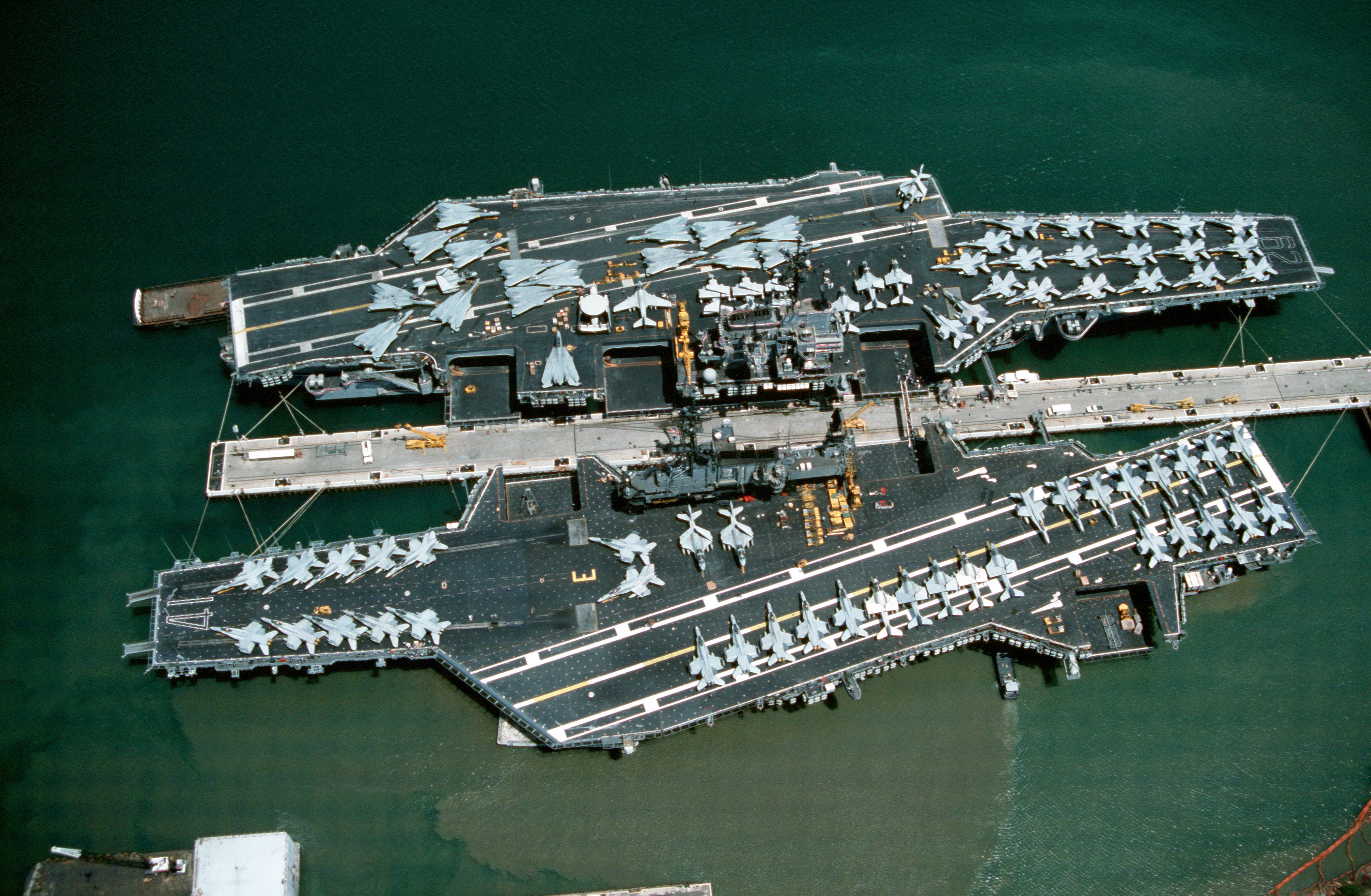 An aerial view of various aircraft lining the flight decks of the U.S. Navy aircraft carrier USS USS Independence (CV-62), top, and USS Midway (CV-41) moored beside each other at Naval Station Pearl Harbor, Hawaii (USA), on 23 August 1991. Midway was en route from Naval Station, Yokosuka, Japan, to Naval Air Station North Island, California (USA), where it was decommissioned on 11 April 1992. Independence travelled to Yokosuka to take over as the U.S. Navy's forward-based aircraft carrier.